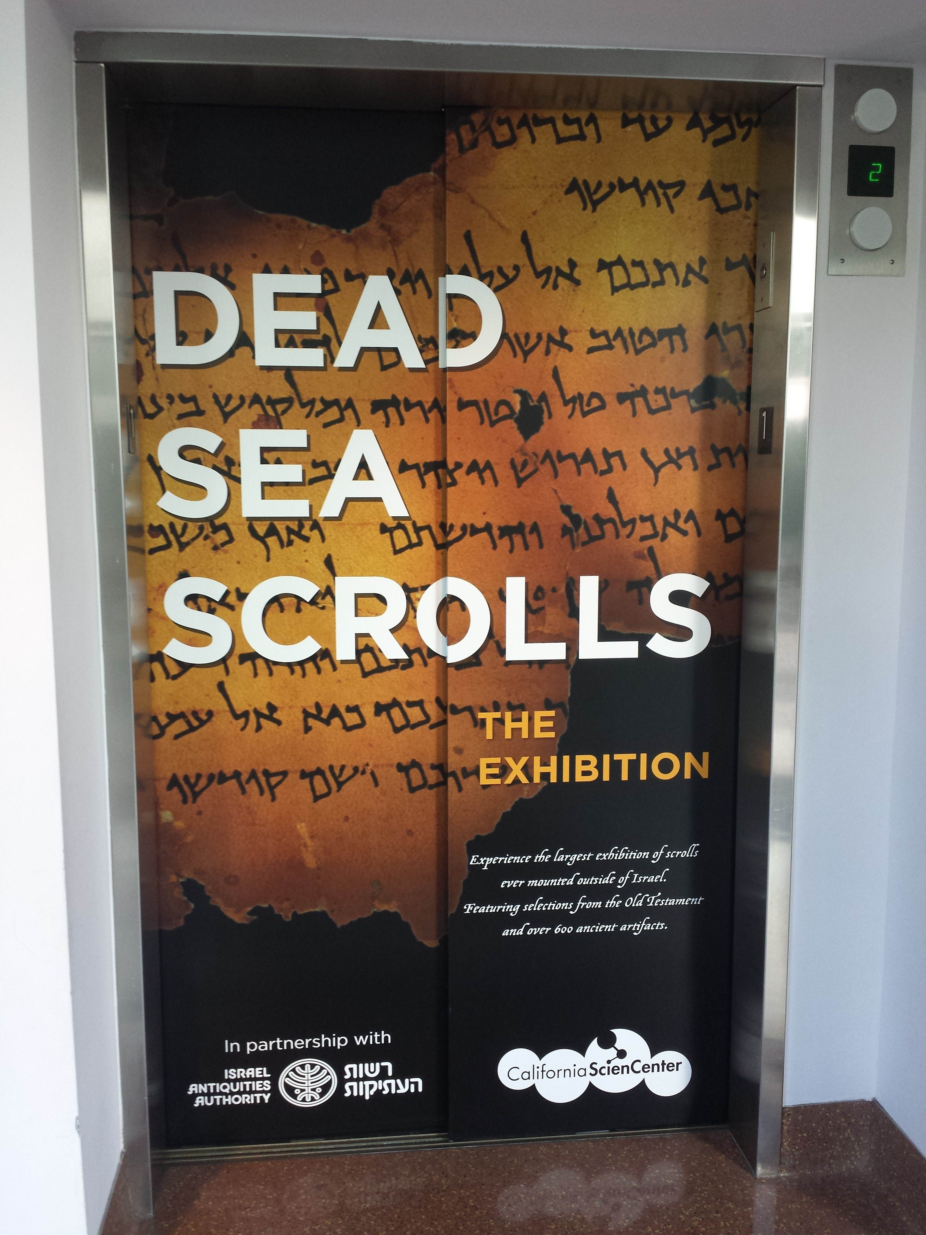 Elevator door poster for the Dead Sea Scrolls exhibition at the California Science Center in Los Angeles.